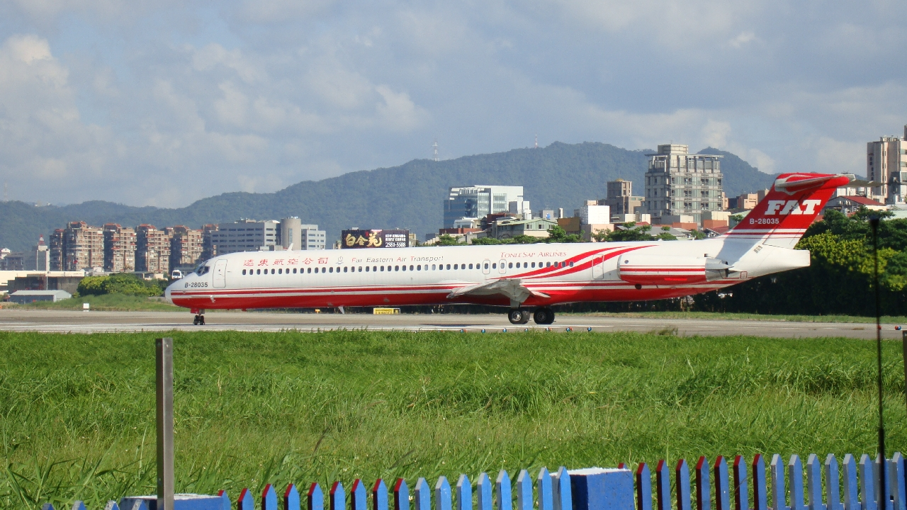 Far Eastern Air Transport MD-82 B-28035 with new painting.